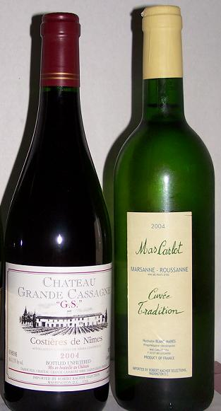 Created by self. Two bottles of Languedoc wines